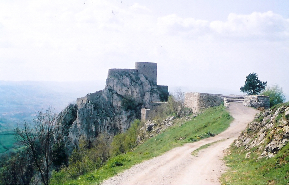 Srebrenik fortress in Bosnia and Herzegovina